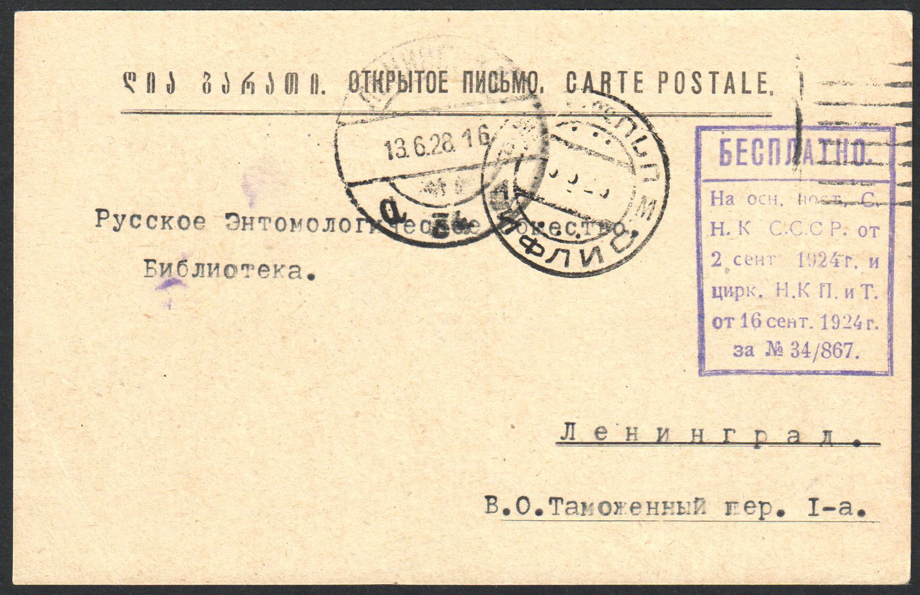 USSR 1928-06-06 free-frank postcard sent from the library of the Museum of Georgia, Tiflis to the library of the Russian Entomological Society, Leningrad, with no stamps due to exemption from postage as used for the Soviet official mail/Academy of Sciences.